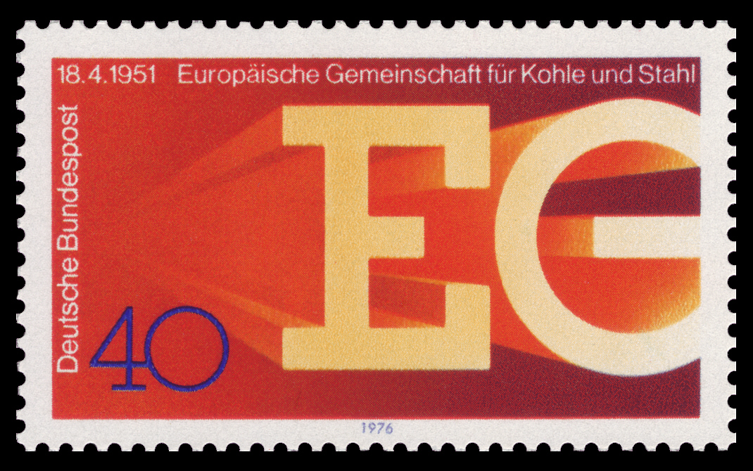 25 years European Coal and Steel Community ECSC Ausgabepreis: 40 Pfennig First Day of Issue / Erstausgabetag: 6. April 1976 Michel-Katalog-Nr: 880 Graphic-Designer:Kroehl